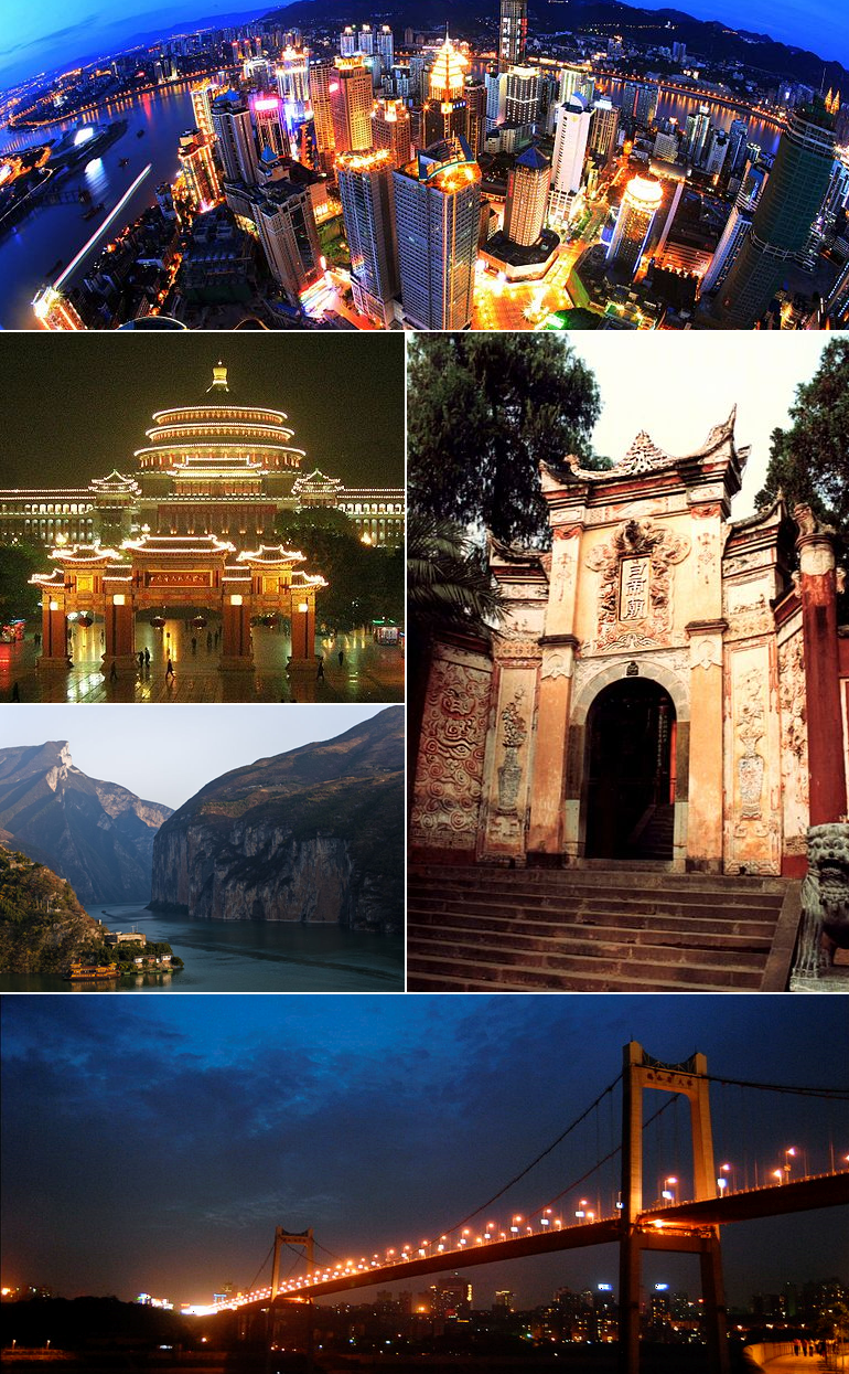 Montage of various Chongqing images.